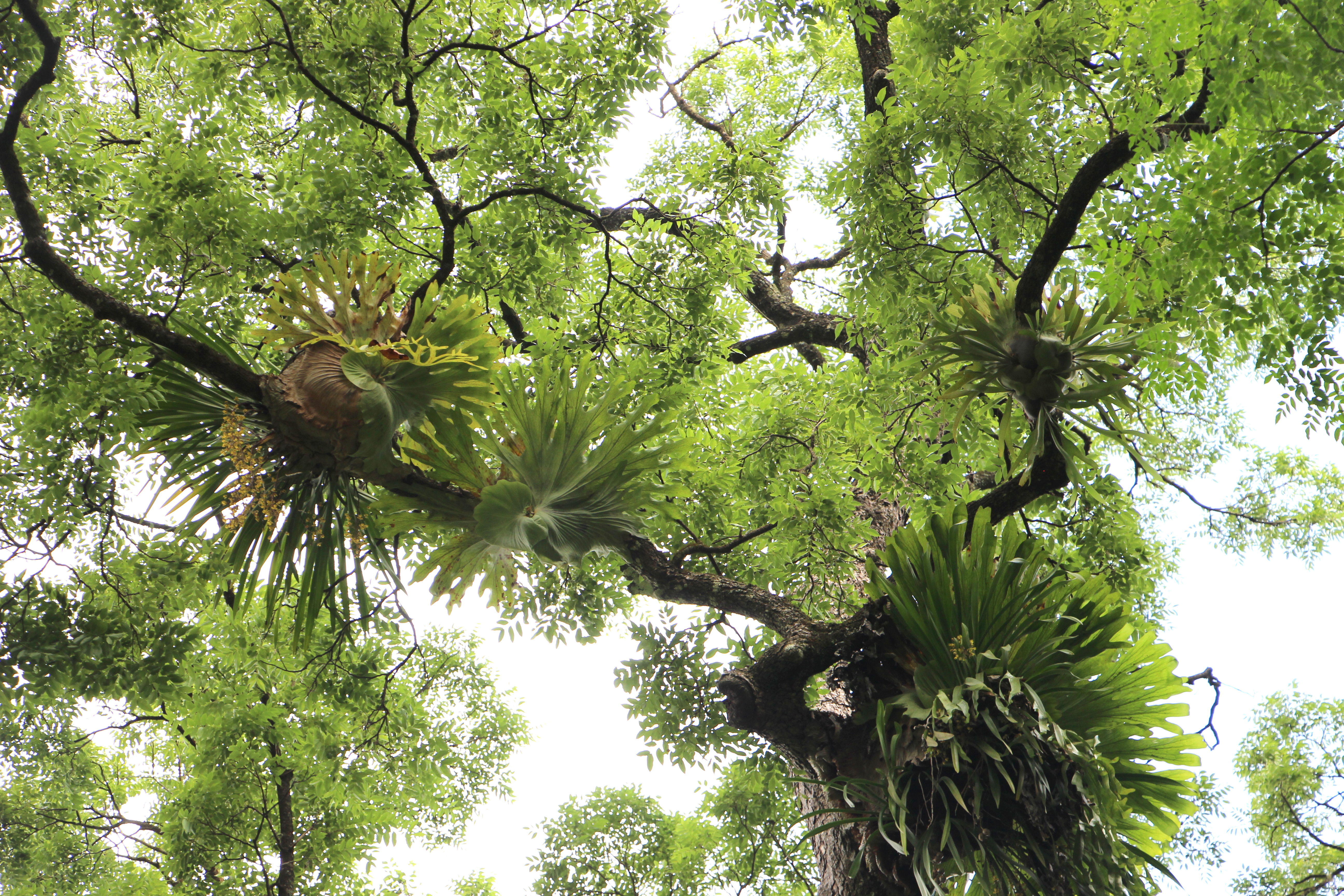 Cymbidium madidum, Staghorn fern, Elkhorn fern & Red Cedar. Red Cedar Park, Ngambaa Nature Reserve, NSW, Australia